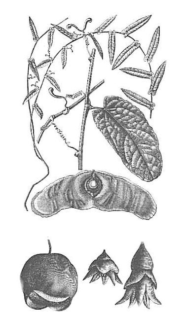 Lower right the flowers, lower left the opening fruit (some 30cm in diameter), center the winged seed, top the twining stem with foliage (Not to same scale)(after "Meyers großes Konversationslexikon", 6.Auflage; Bd.23; Jahressupplement 1910-1911, S.976)